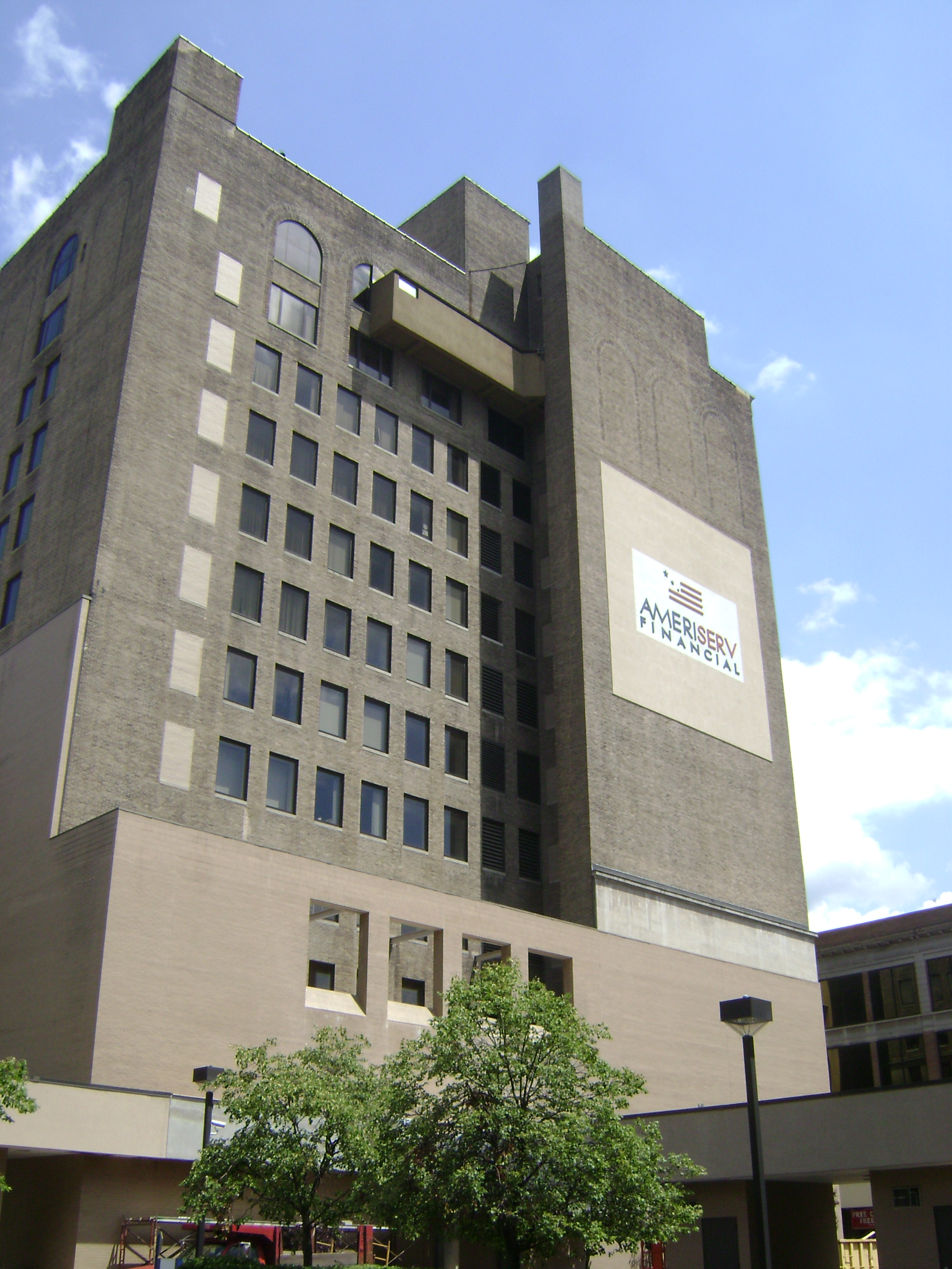 Photo of Ameriserv Financial headquarters building in downtown Johnstown, at the corner of Main and Franklin Sts.